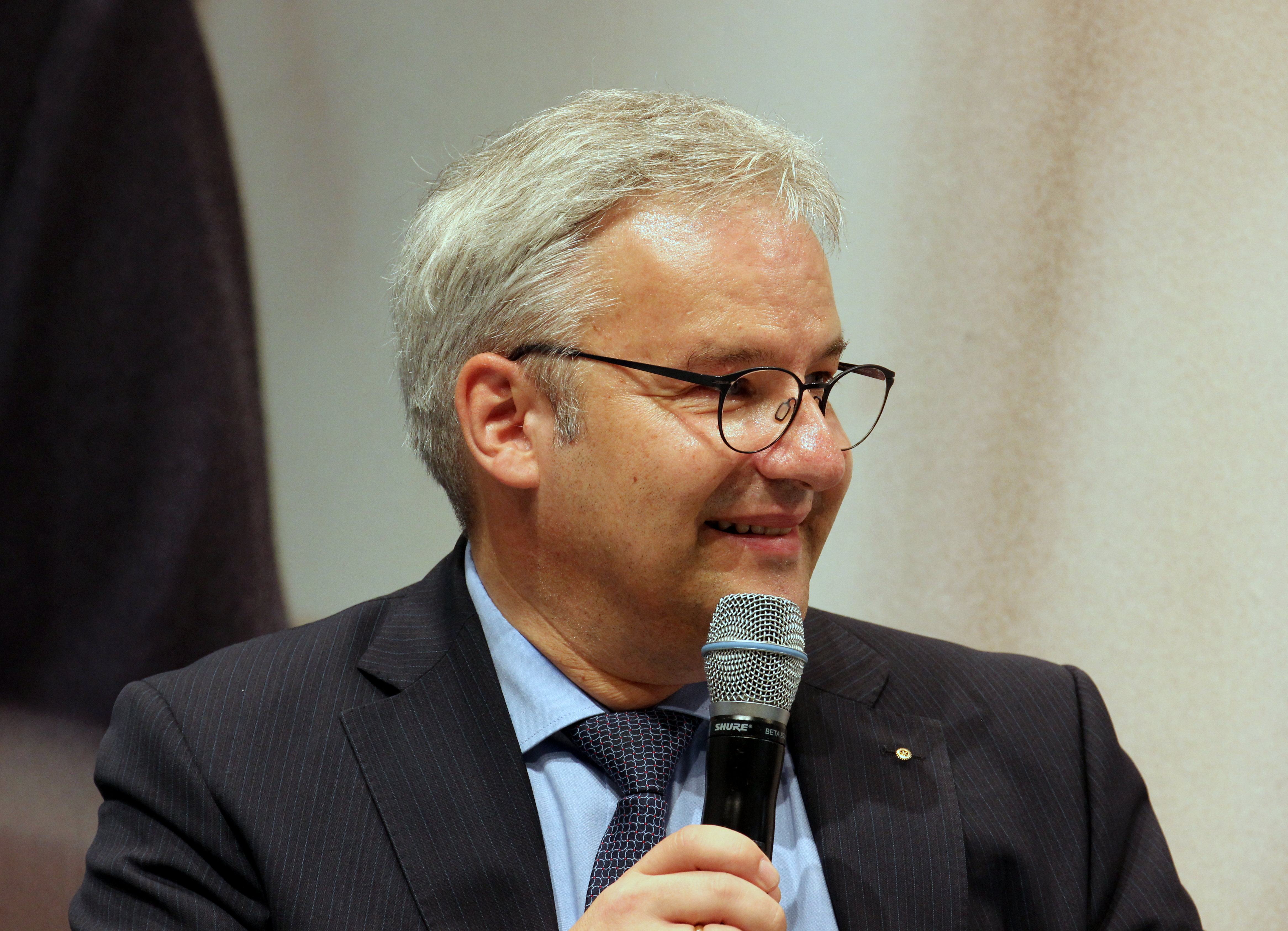 Markus Del Monego, Frankfurt Book Fair 2017